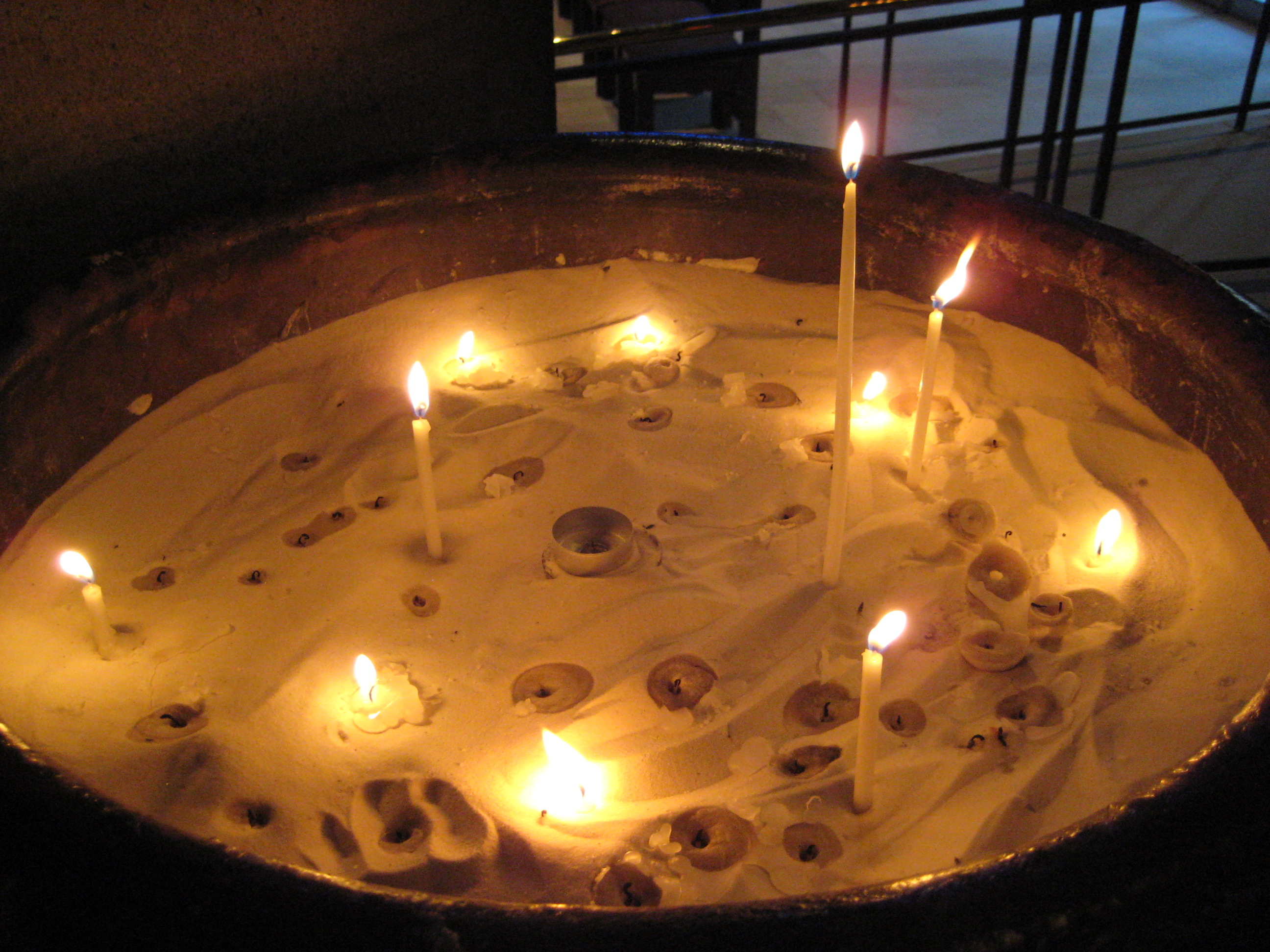 These candles have burnt down to stubs and waxy craters.